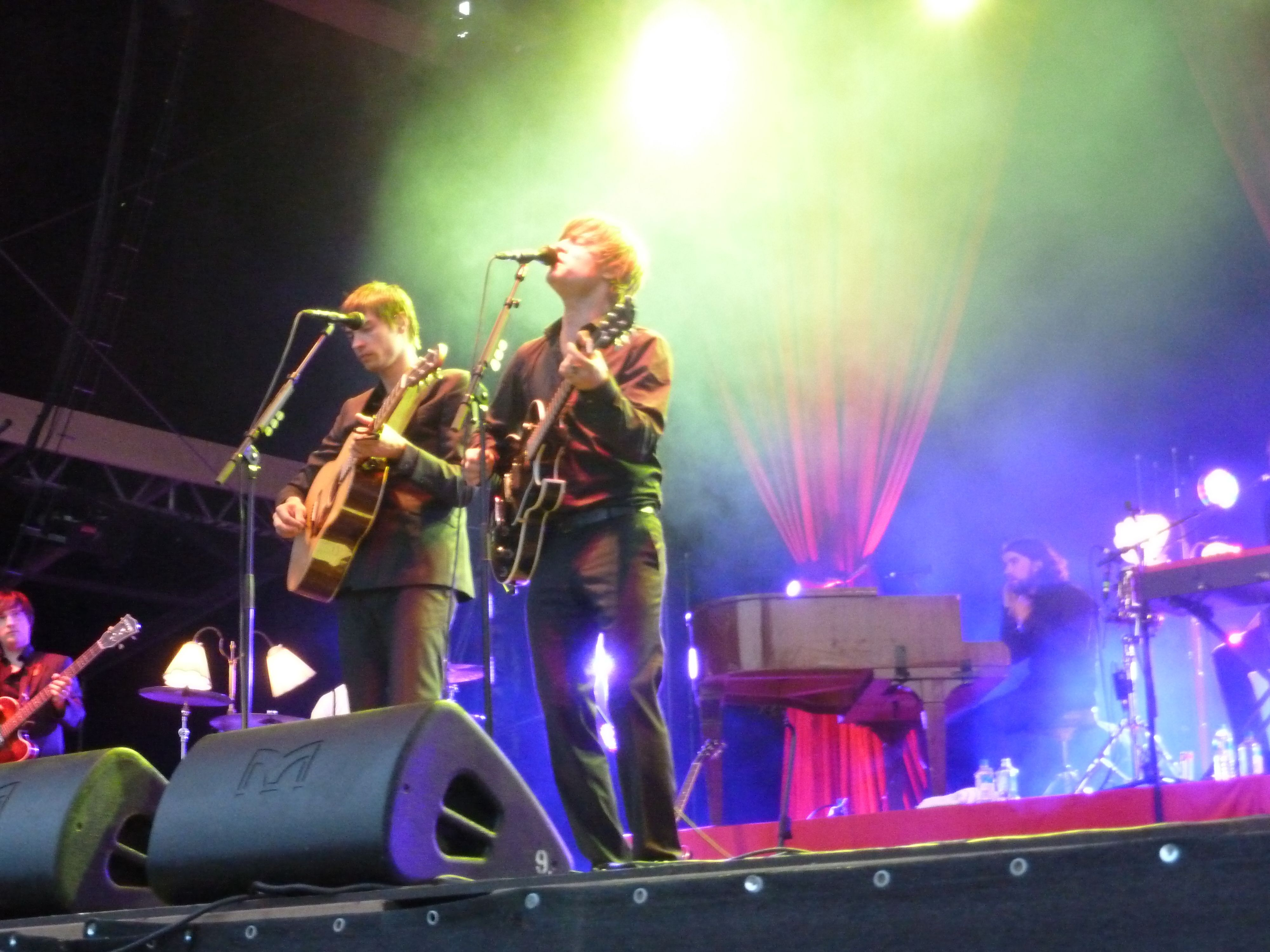 Mando Diao Zitadelle Berlin, June 2011